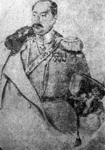 General Mikheil Kazbegi, father of the writer Alexander Kazbegi